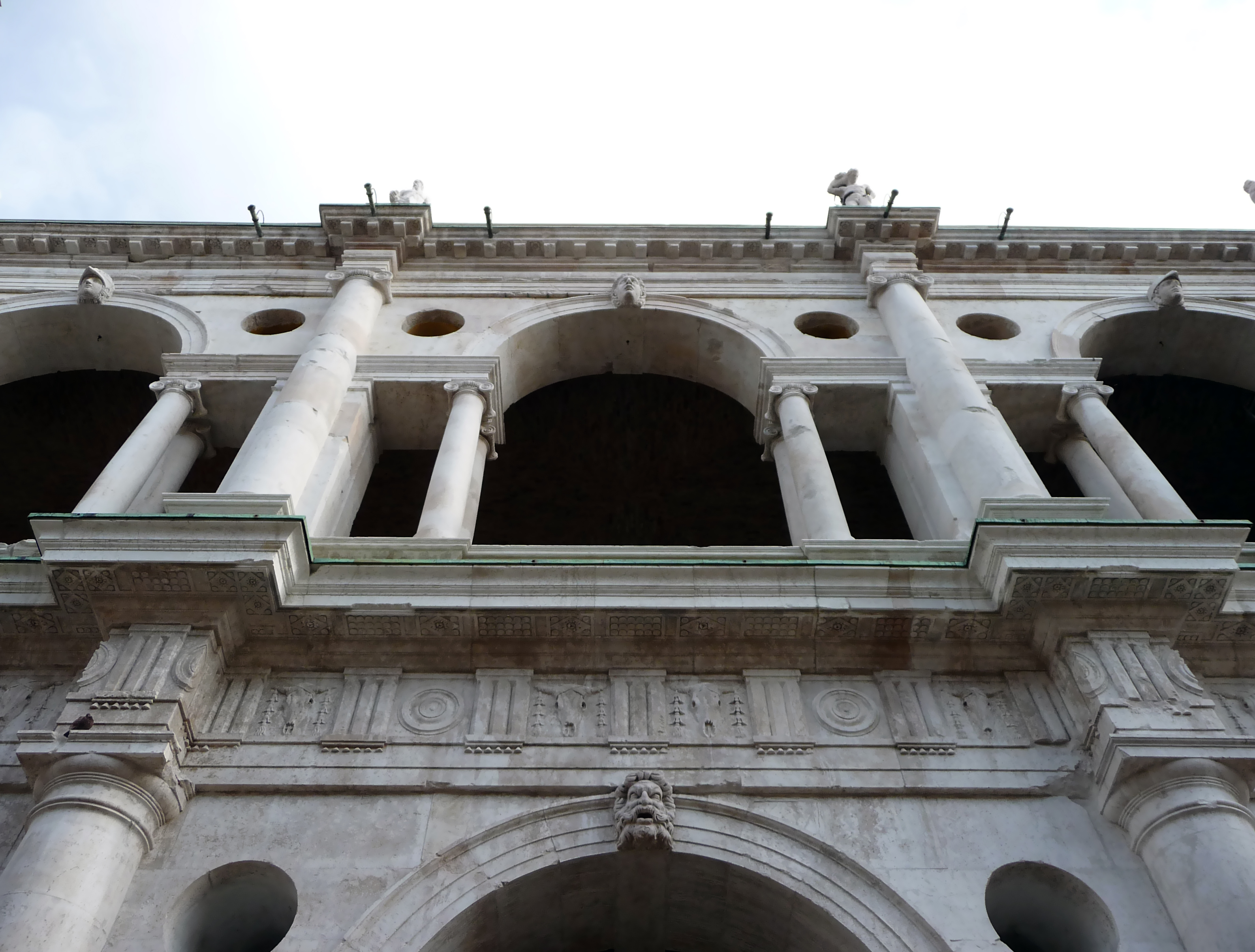 Vicenza, the Basilica Palladiana during the 2008 restoration works.